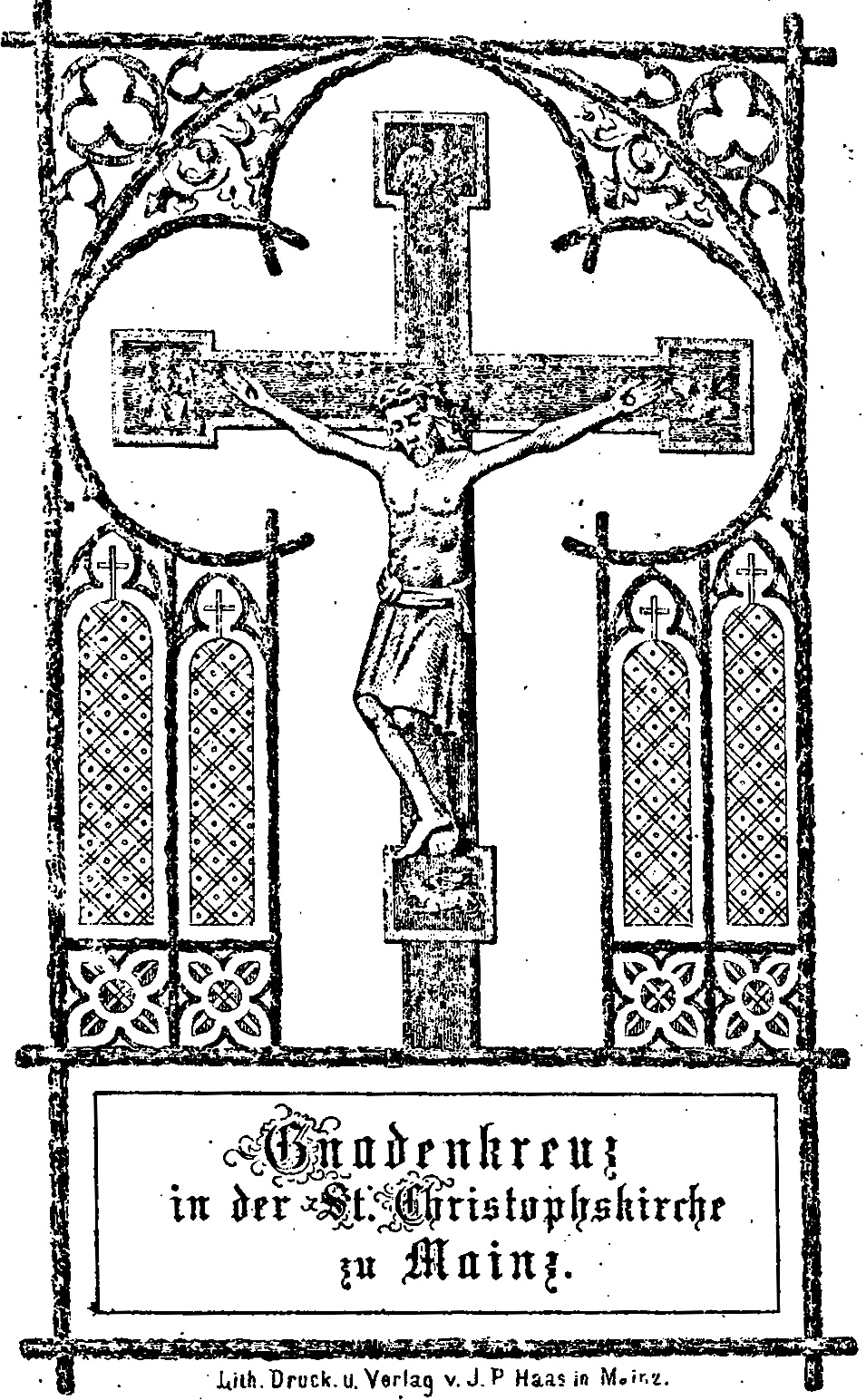 Mainzer Gnadenkreuz, heute im Priesterseminar Mainz